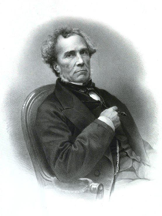 Gustave de Beaumont (1802-1866), french politician and writer